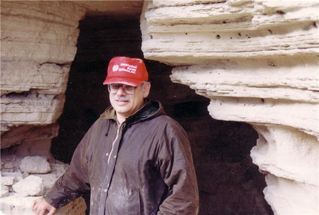 Eisenman at Cave 4 near Qumran